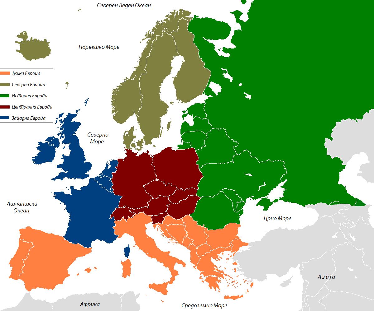 The regions of Europe on Macedonian.